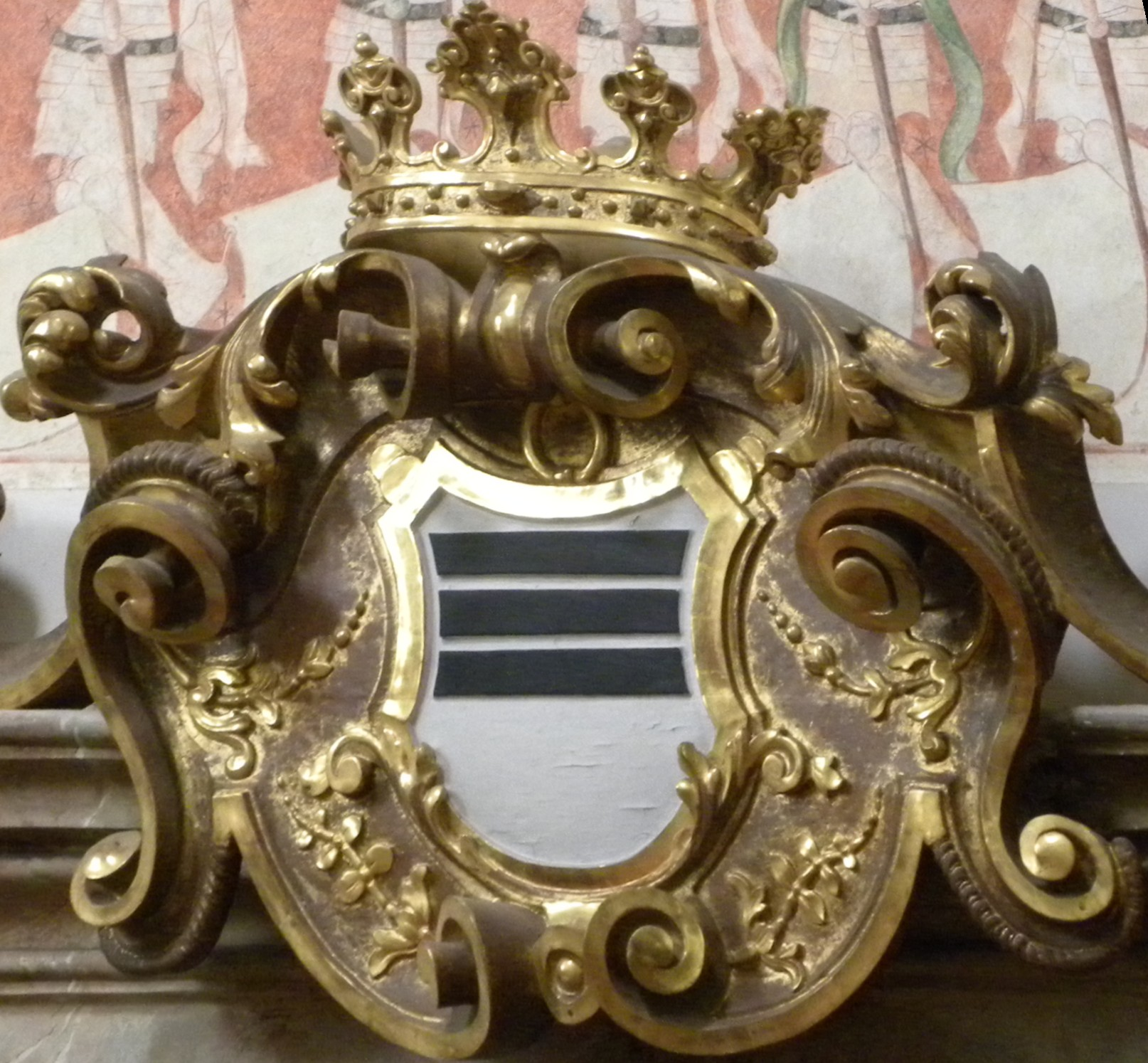 Coat of arms of lords of Kunštát family (branch of Obřany). Relief in the presbytery of basilica minor in Žďár nad Sázavou.